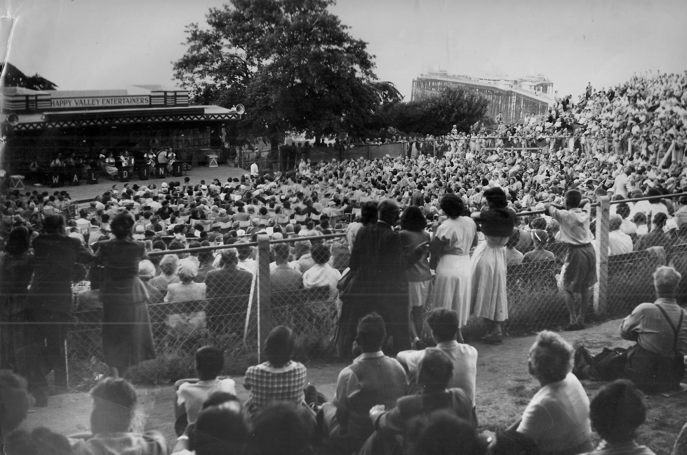 Waldini and his Gypsy Orchestra performing at Happy Valley, Llandudno in about 1956. Happy Valley is located on the Great Orme; the picture shows the enclosure within which paying guests sit and Aberdeen Hill from which people could watch the show free of charge. Llandudno pier can be seen in the background.